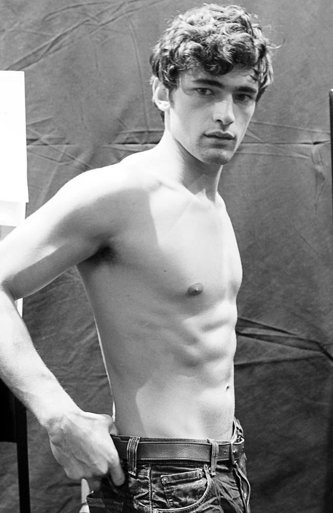 Sean O'Pry @Pignatelli